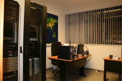 AHBVPA-GabSistemasInformacao